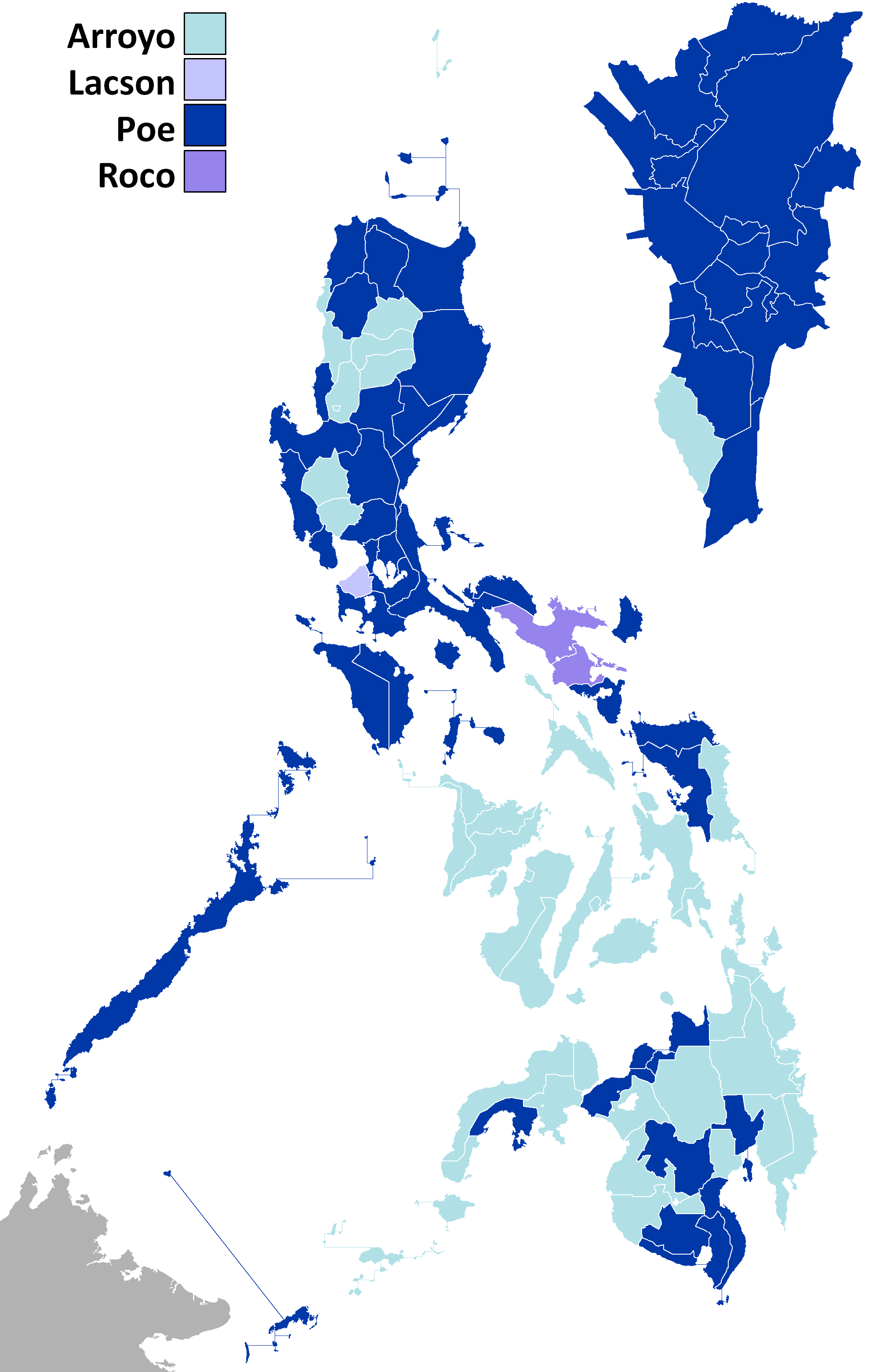 Map showing the results of the Philippine presidential elections 2004